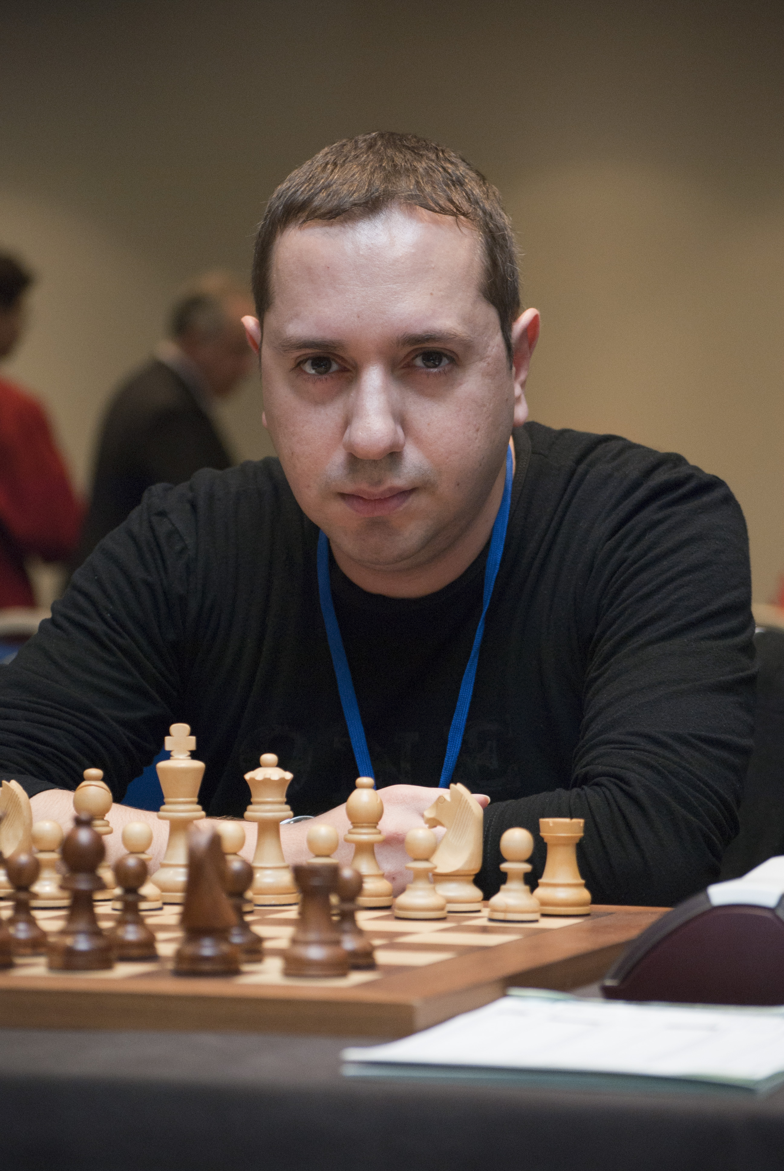 GM Ioannis Papaioannou, Porto Carras EchT 2011.